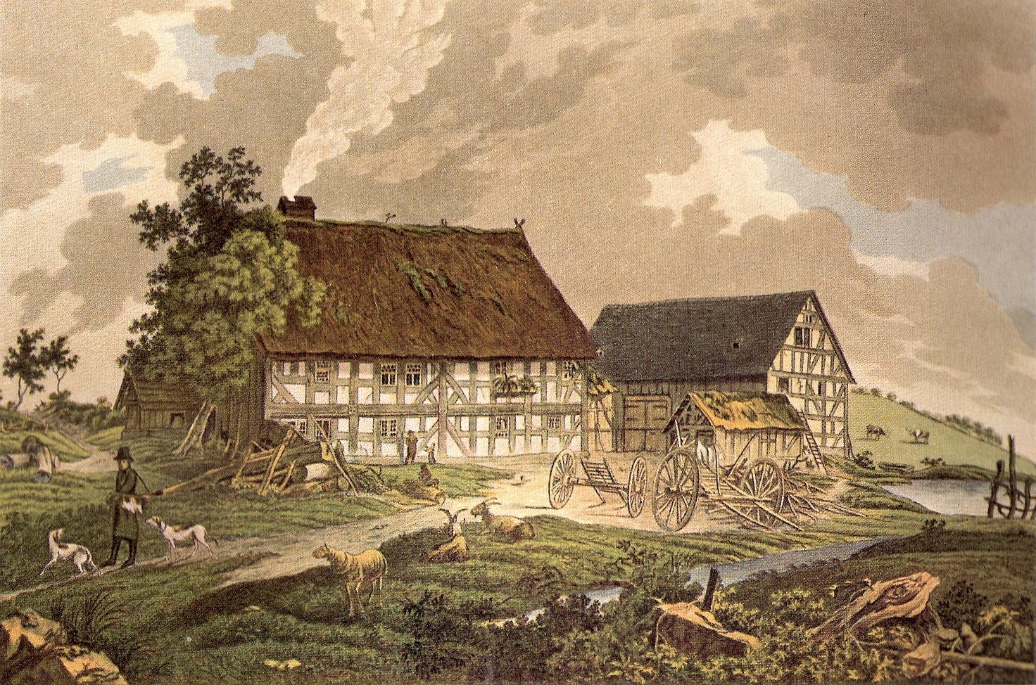 Siegerland (Westphalia, Germany): view of the Lahnhof in the early 19th century, with the spring of the river Lahn. Etching by Christian Reinermann (1764–1835).